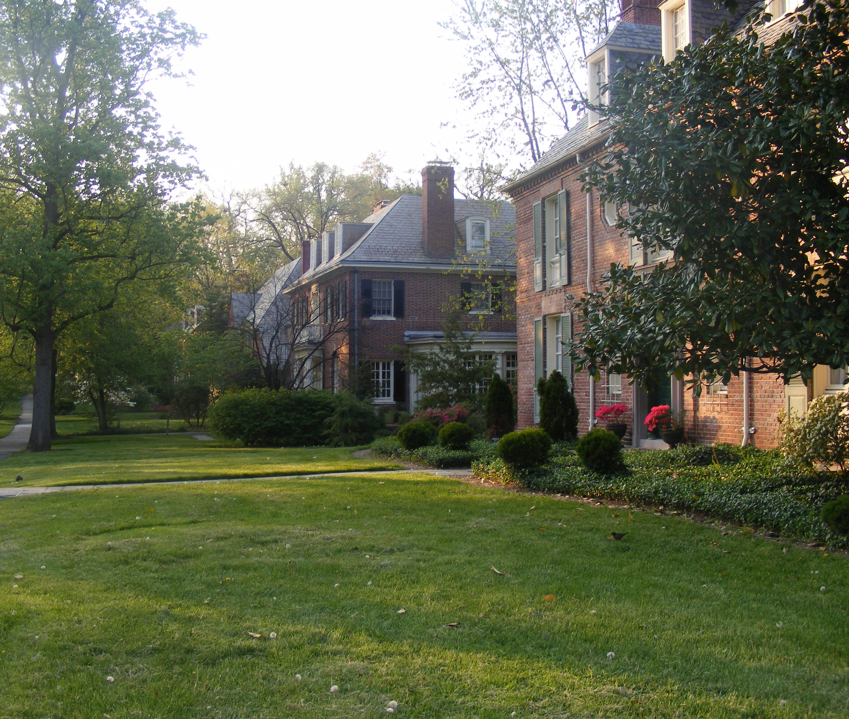 Homes in guildford